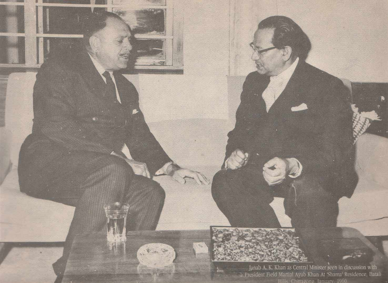 Pakistan's president and military dictator General Ayub Khan at the residence of industrialist A. K. Khan in Chittagong, East Pakistan, 1960